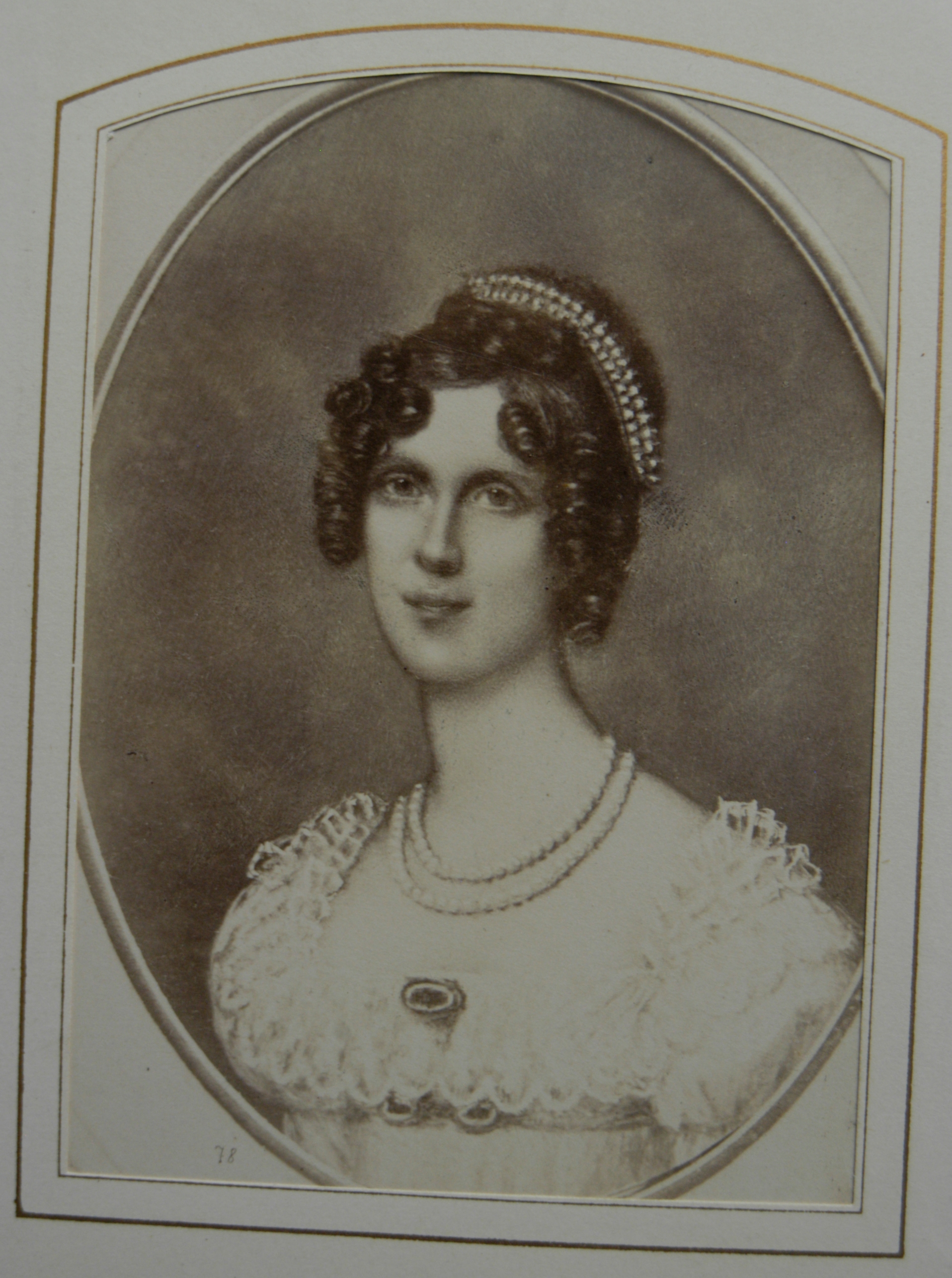 Photo (by meRodolph (talk) 15:29, 2 March 2014 (UTC)) of a photo of a small portrait of Henrietta Foster (1785-1856) 3rd wife to Jerome, 4th Count de Salis-Soglio. Taken from 'Photographien der Bilder von Vorfahren der Familie von Salis', Chur, 1884.